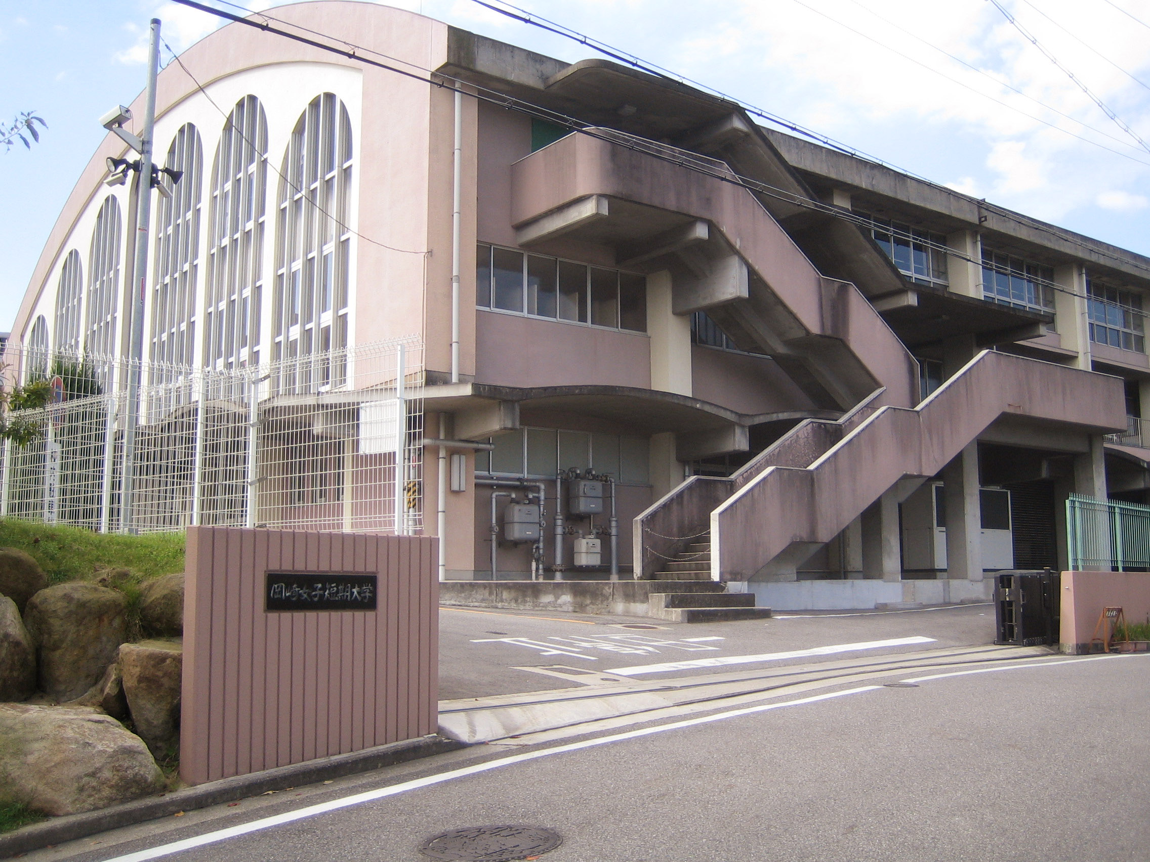 Okazaki Women's Junior College (岡崎女子短期大学), at Okazaki, Aichi, Japan